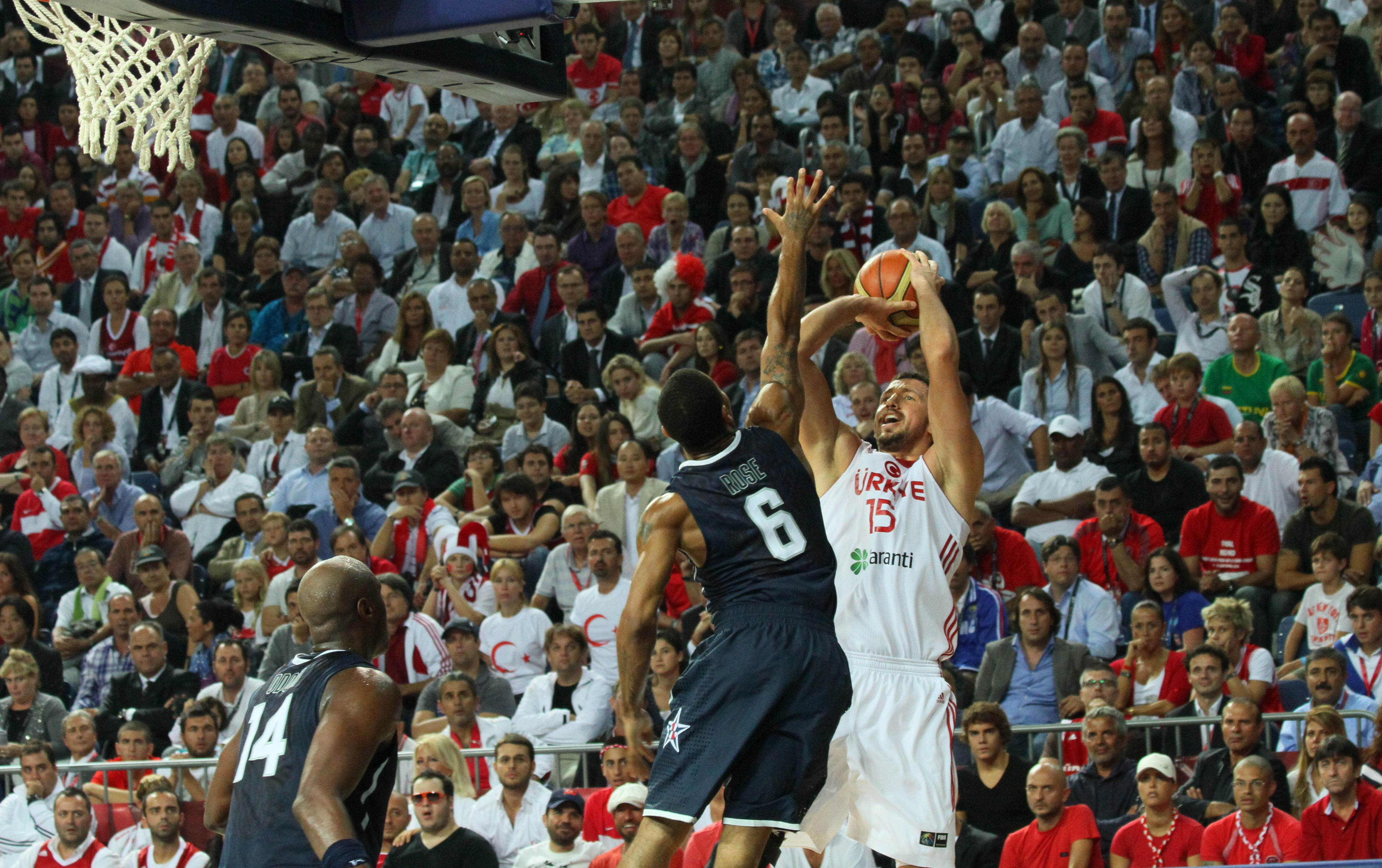 Basketball World Cup 2010 in Turkey.